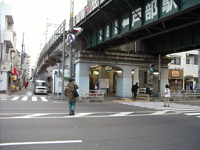 Tobe station on Keikyu-Main line.